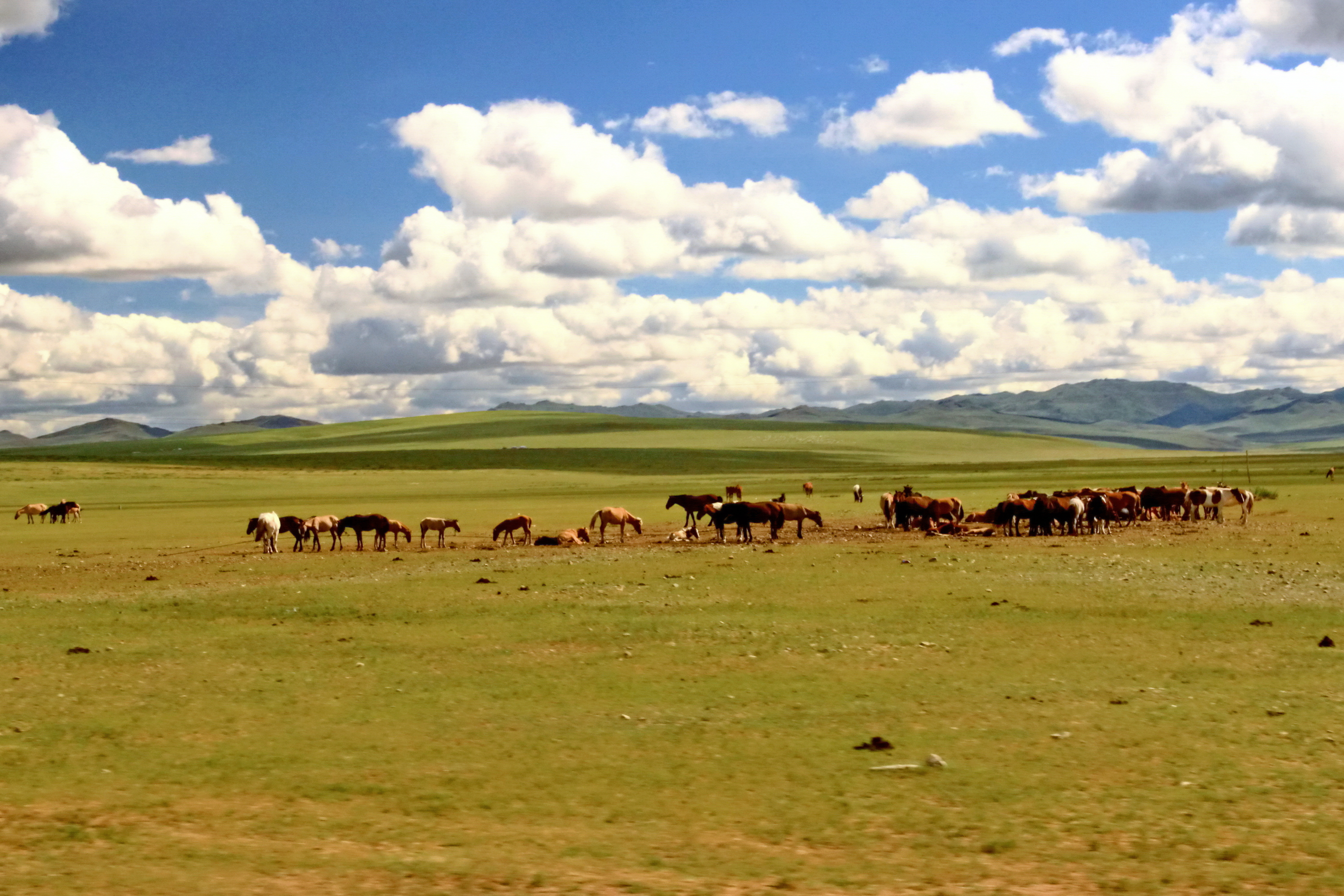 Steppe in the central Mongolia on the road between Ulan Bator and Kharkhorin.